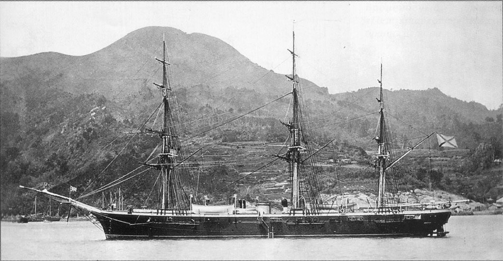 Imperial Russian corvett Skobelev.